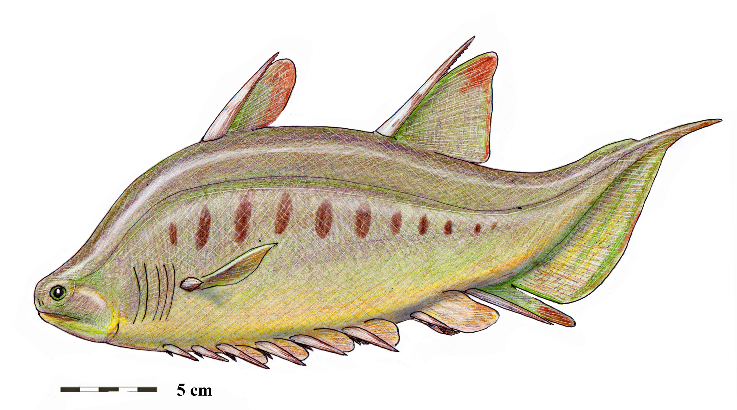 Early Devonian acanthodian Brochoadmones milesi, from Man-On-the Hill locality in Canada